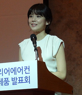 Lee Bo-young (South Korean actress, born 1979) on January 30, 2013